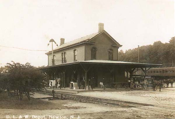 Photo postcard of the Newton, New Jersey station on the Sussex Railroad.